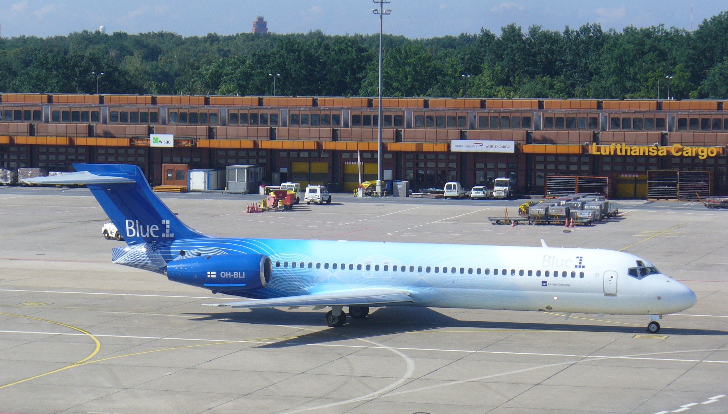 A Boeing 717 (registered OH-BLI) of Blue1 at Berlin Tegel Airport.